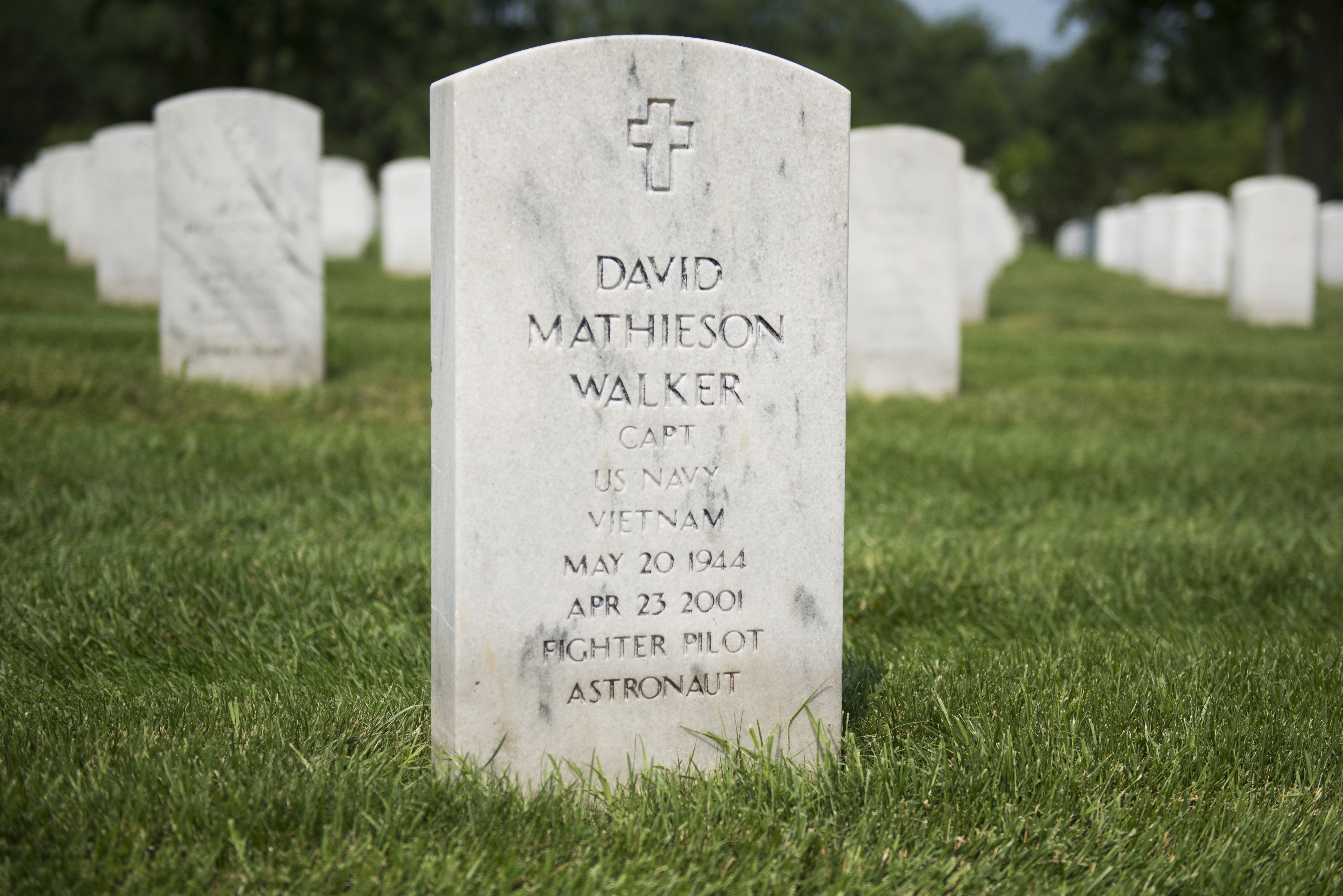 Capt. David Mathieson Walker, buried Section 66, grave 5191, was a United States Navy officer and a NASA astronaut. He flew aboard four Space Shuttle missions in the 1980s and 1990s. (U.S Army photo by Rachel Larue/released)